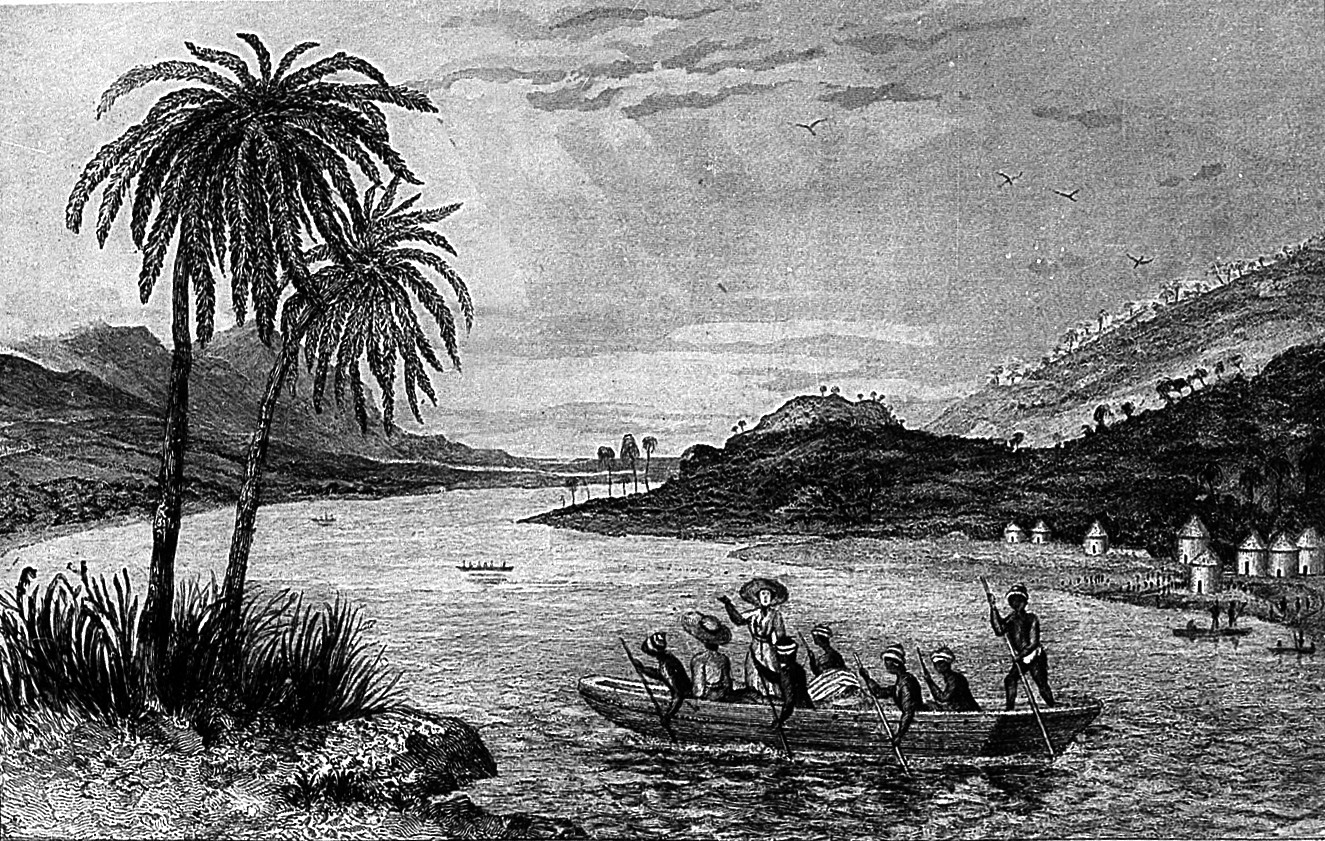 Richard and John Lander proceeding down the Niger. Wellcome Images Keywords: Richard Lander